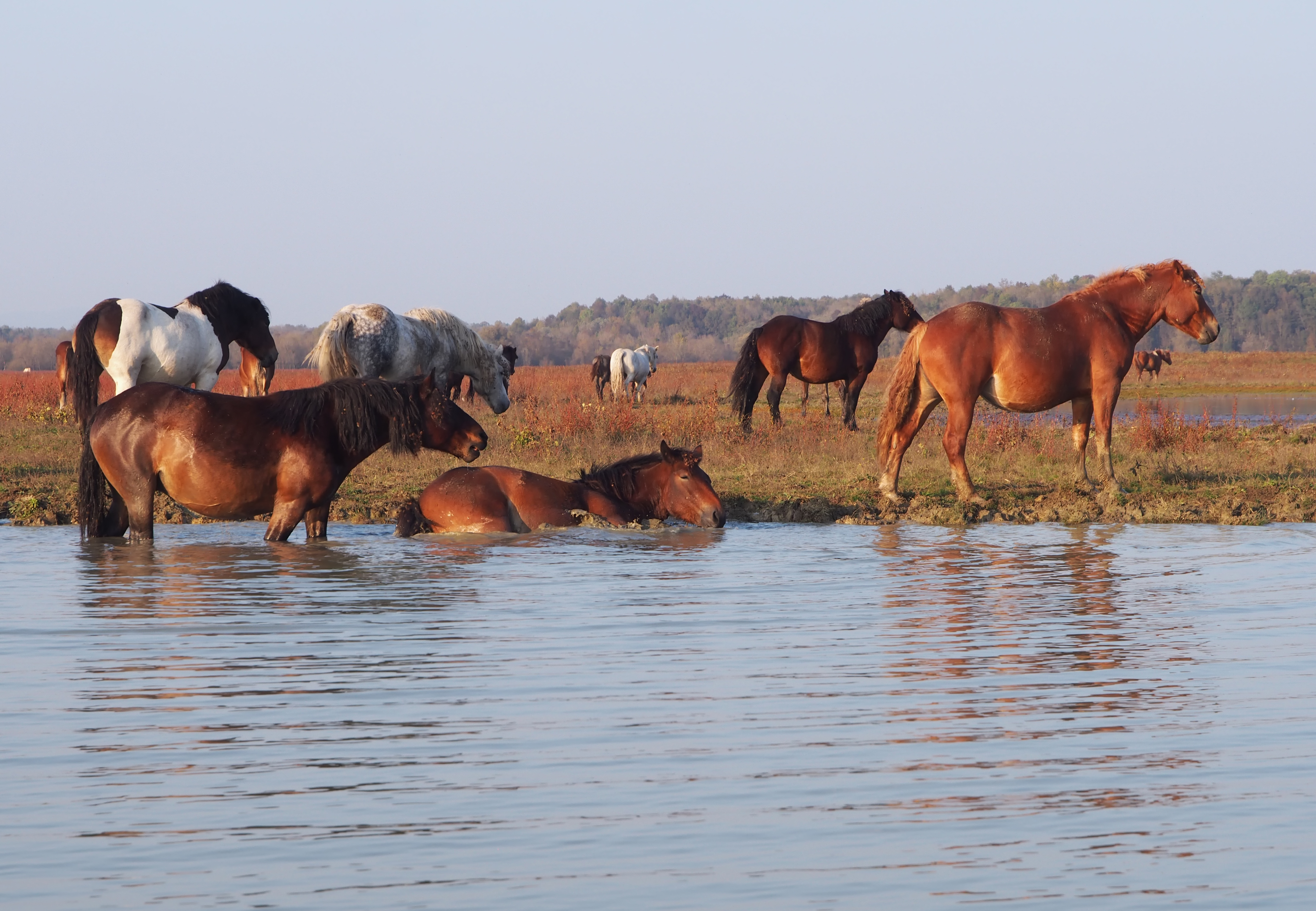 Konji na slobodnoj ispaši u Lonjskom polju! Fotografija je snimljena u neposrednoj blizini sela Mužilovčica!